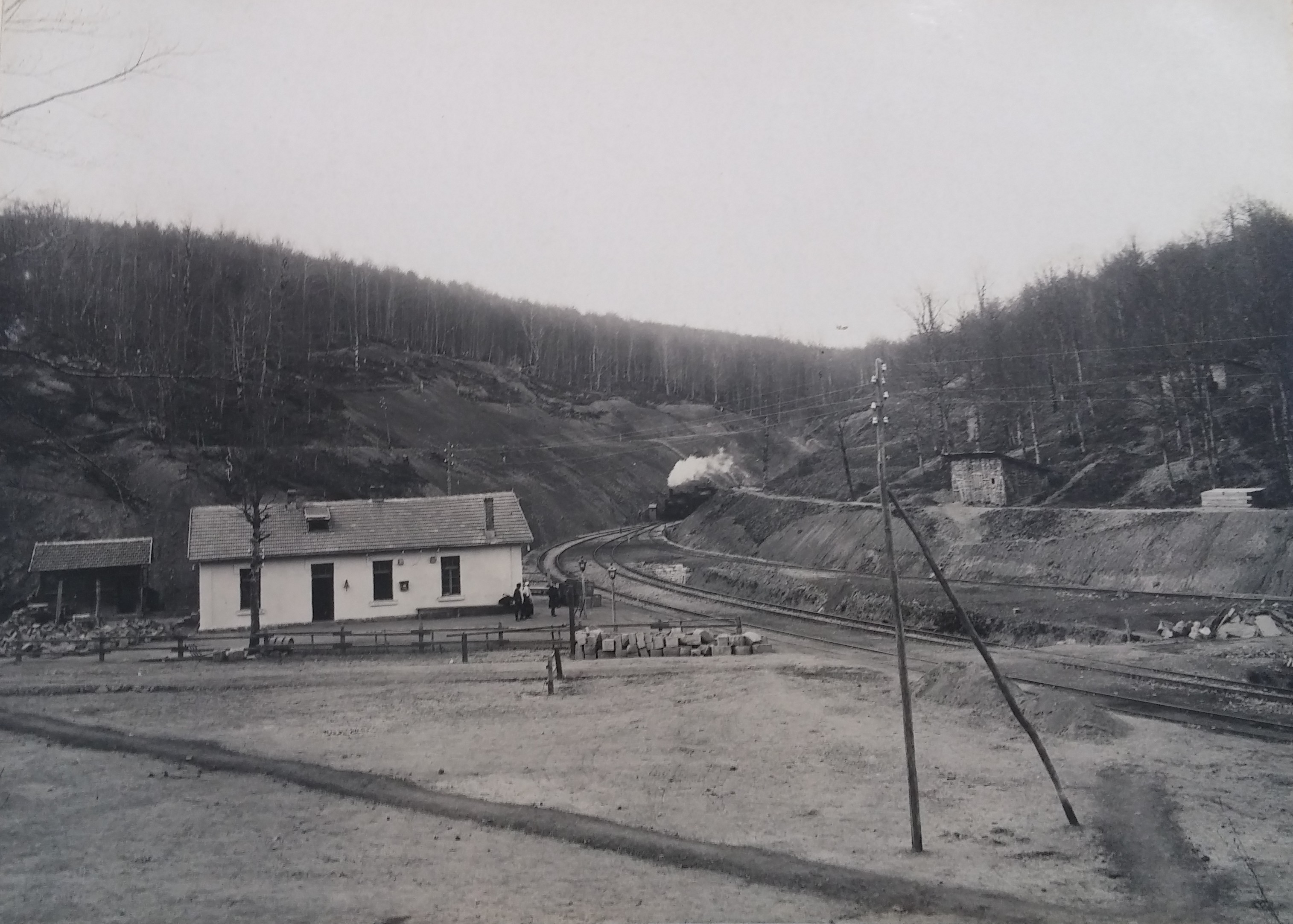 Construction of the railway line Veliko Tarnovo - Tryavna - Borushtitsa. Krustets station.